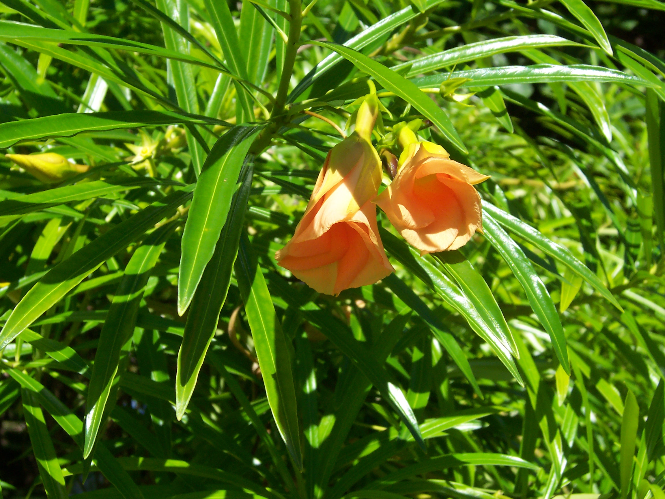 Flowers of Thevetia peruviana